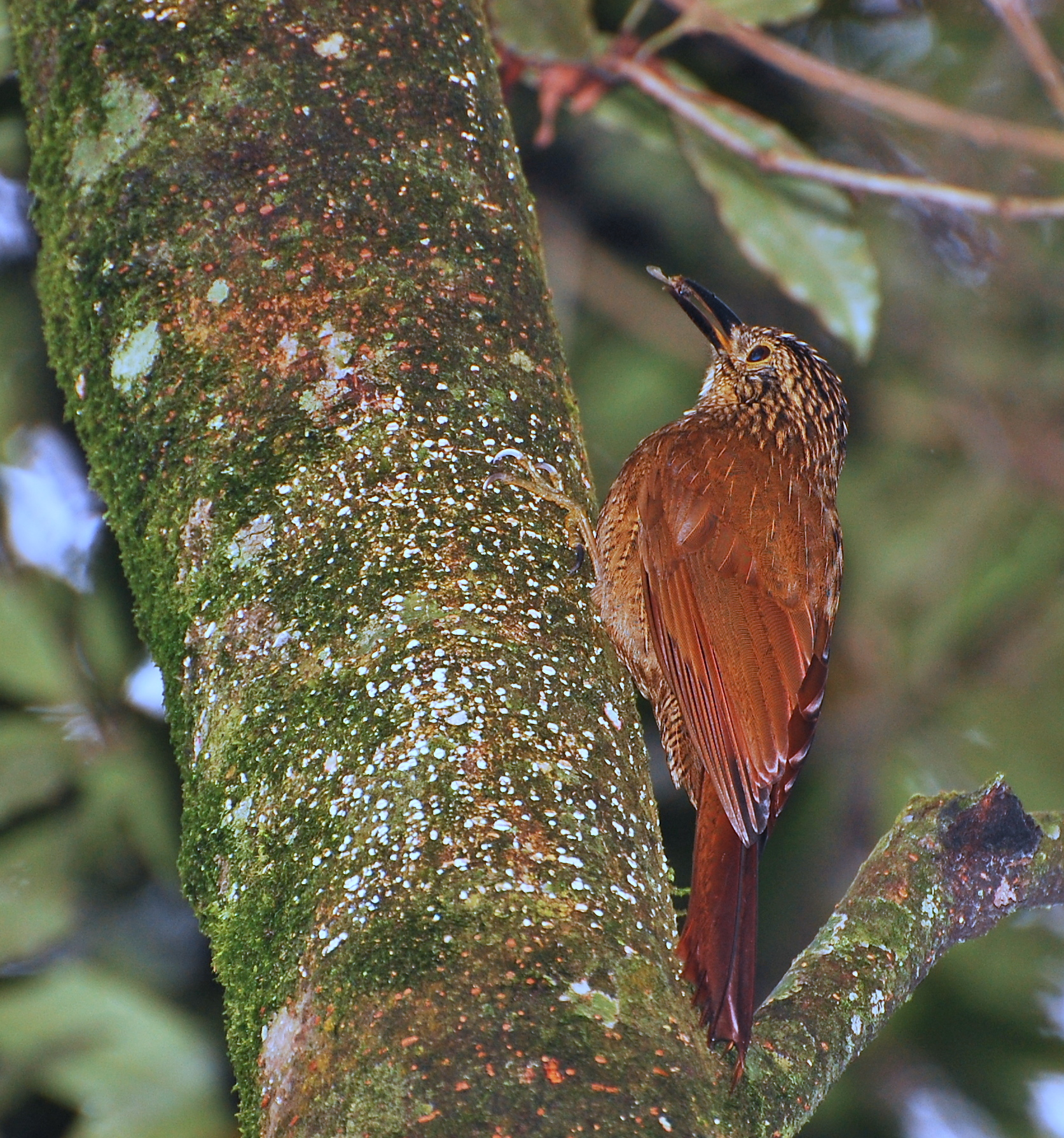 Dendrocolaptes platyrostris